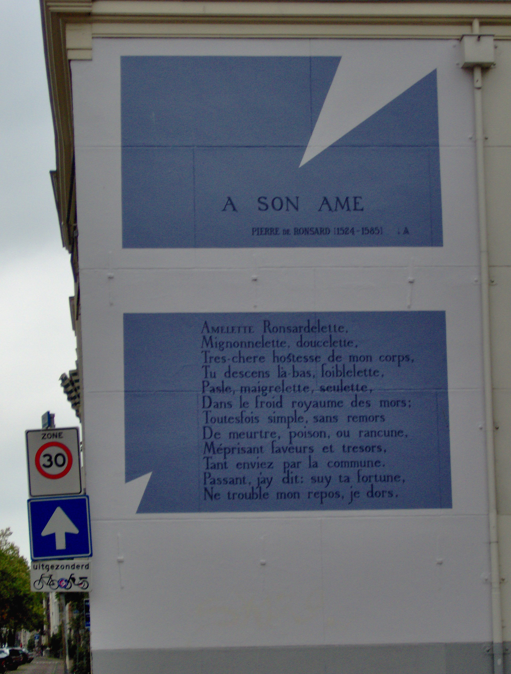 The poem A son âme of the French poet Pierre de Ronsard on the wall of the building at the corner between the Oude Singel and the Klokpoort in Leiden, The Netherlands. This poem was originally part of the Leiden wall poems project of TEGEN-BEELD and painted on a wall at the Oostdwarsgracht 12, approximately hundred metres to the northwest, but was removed there.